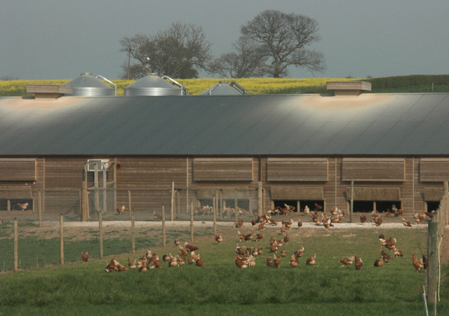 Free range hens These hens are housed in a new large free-range egg production unit belonging to a firm called Anslow Eggs.